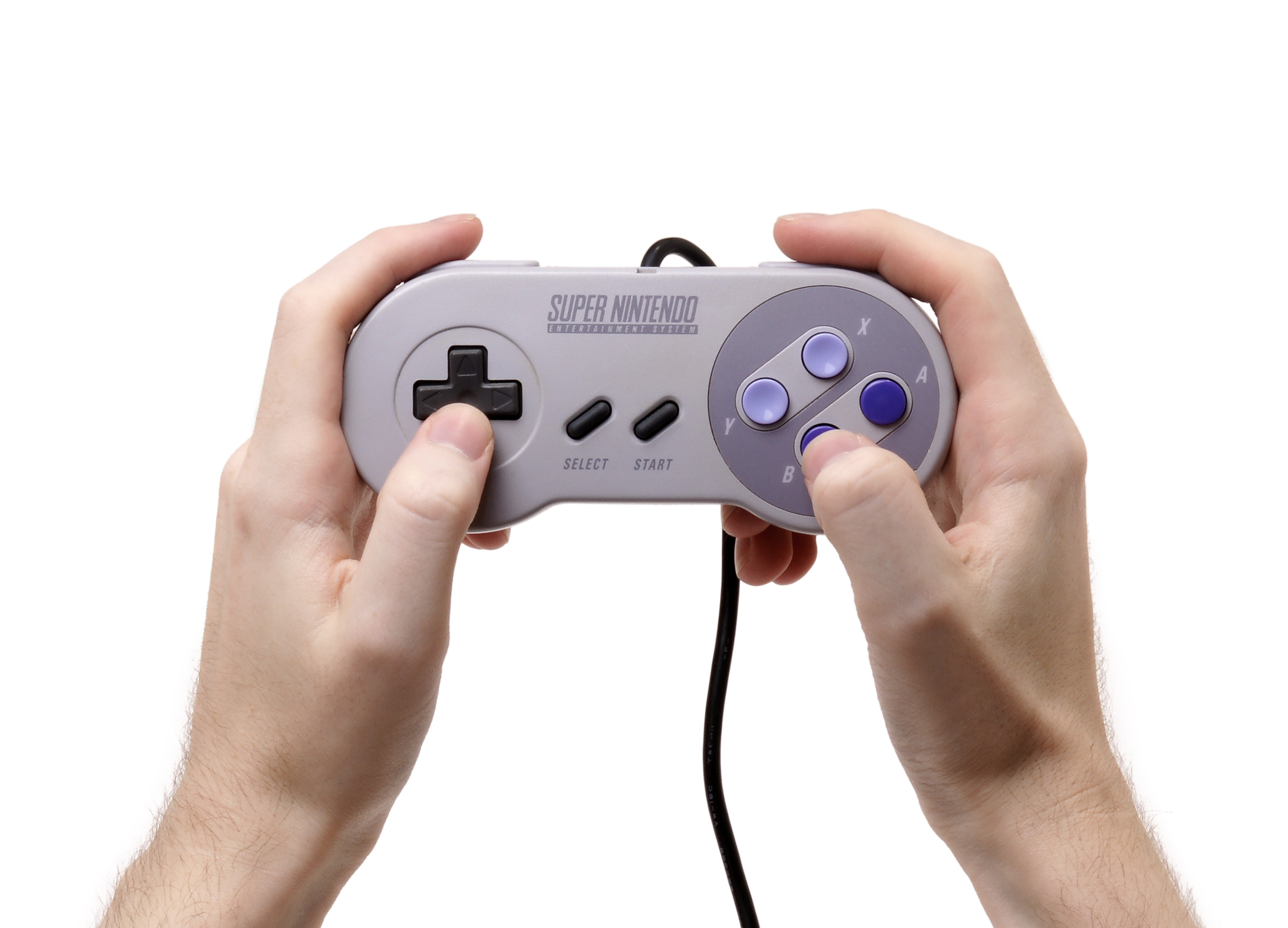 A North American SNES controller shown held in hands.